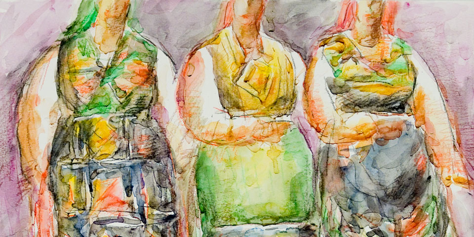 Aquarelle Painting by Nadezhda Kouteva of Bulgarian women in traditional clothing.